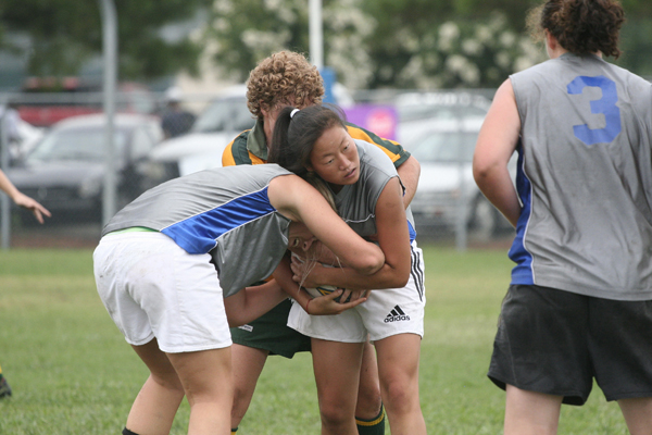 Amanda "Gump" Winar mauling T NC Hustlers vs. Midwest II Some rights reserved. Free for use provided proper attribution given to author.